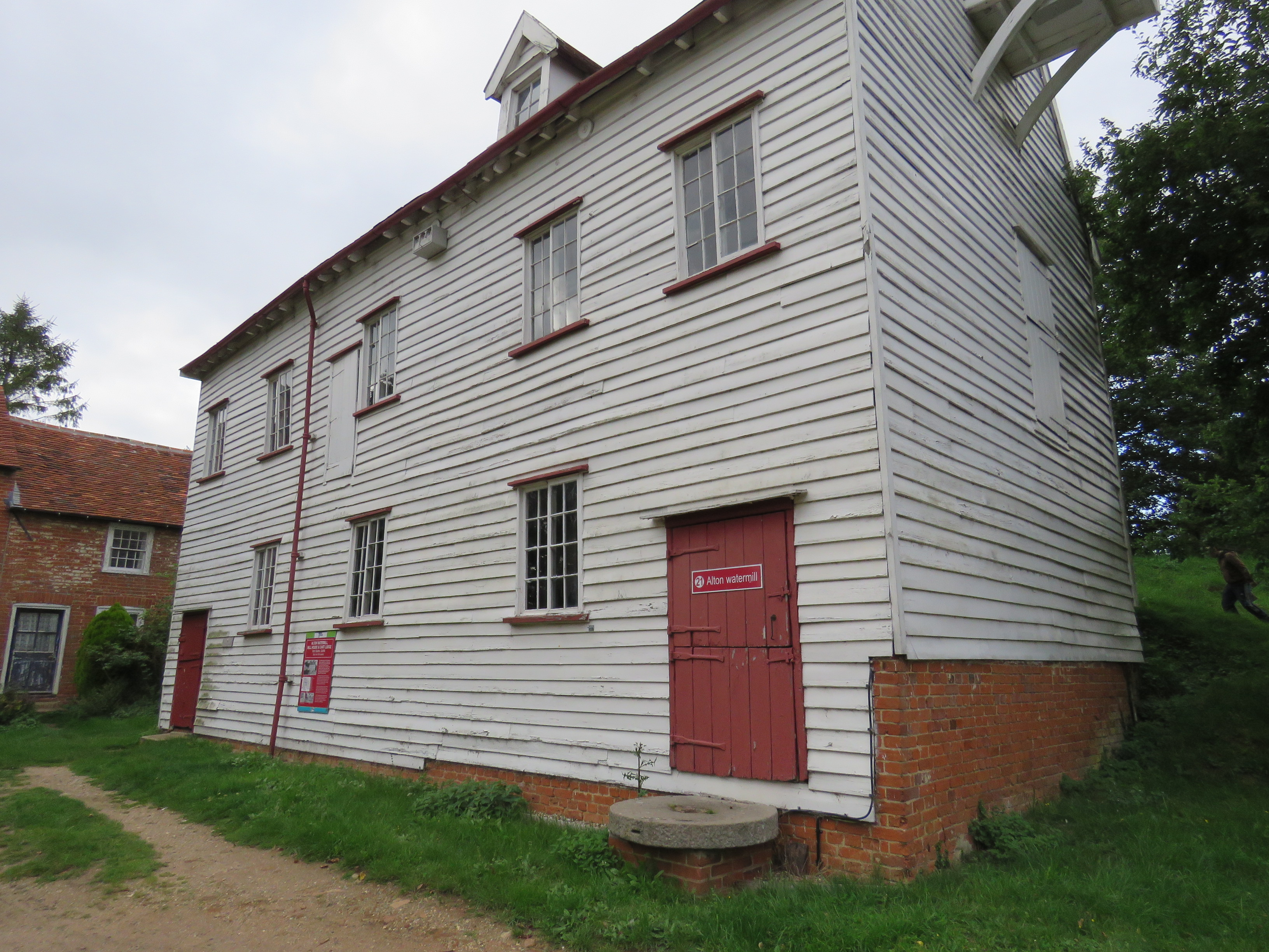 Eastbridge Mill, Museum of East Anglian Life, Stowmarket, Suffolk